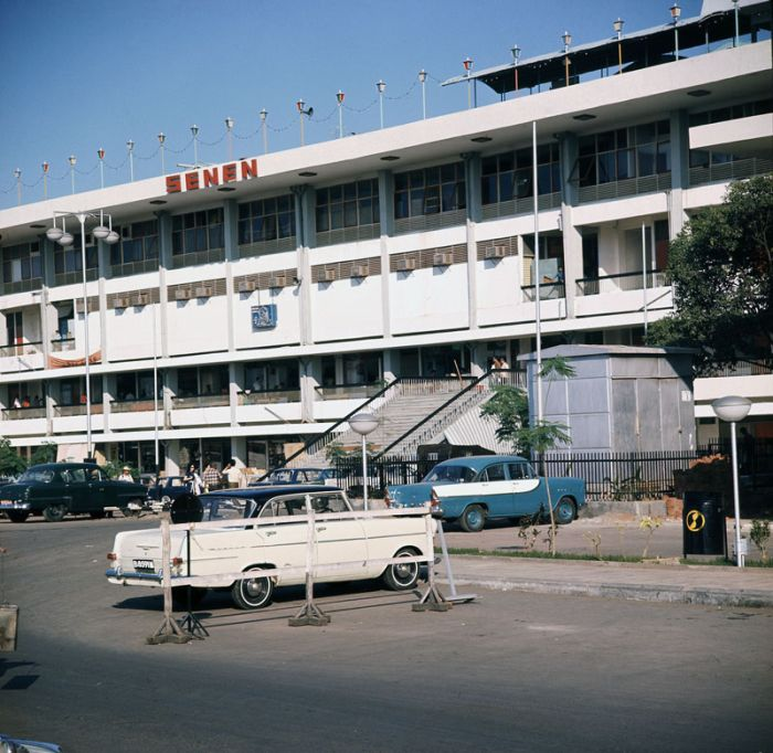 Pasar Senen